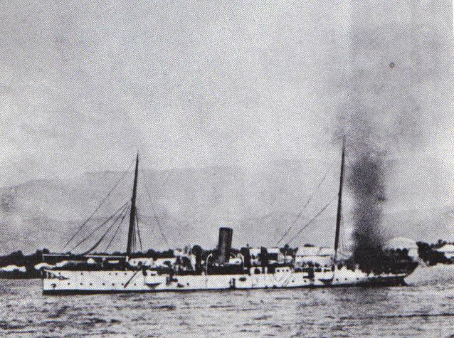 Haitian ship Crête-à-Pierrot before his explosion, Haiti, 1902